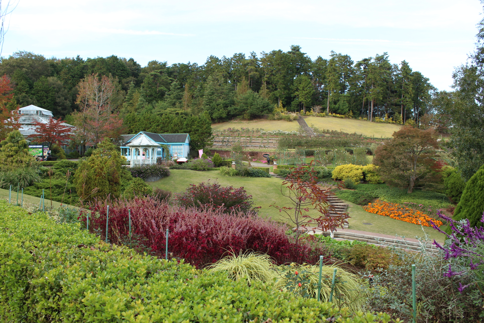 Shuzenji Nijinosato's Fairy Garden in Izu, Shizuoka Prefecture, Japan